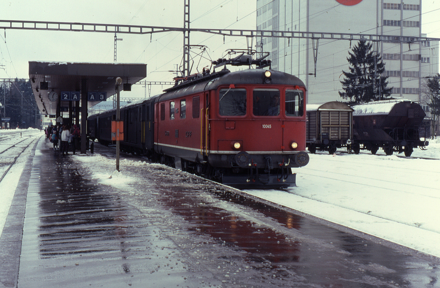 Re 4/4¹ no. 10045 on train 6068, 12:41 Herzogenbuchsee to Lyss at the start of its journey on 16 February 1991.